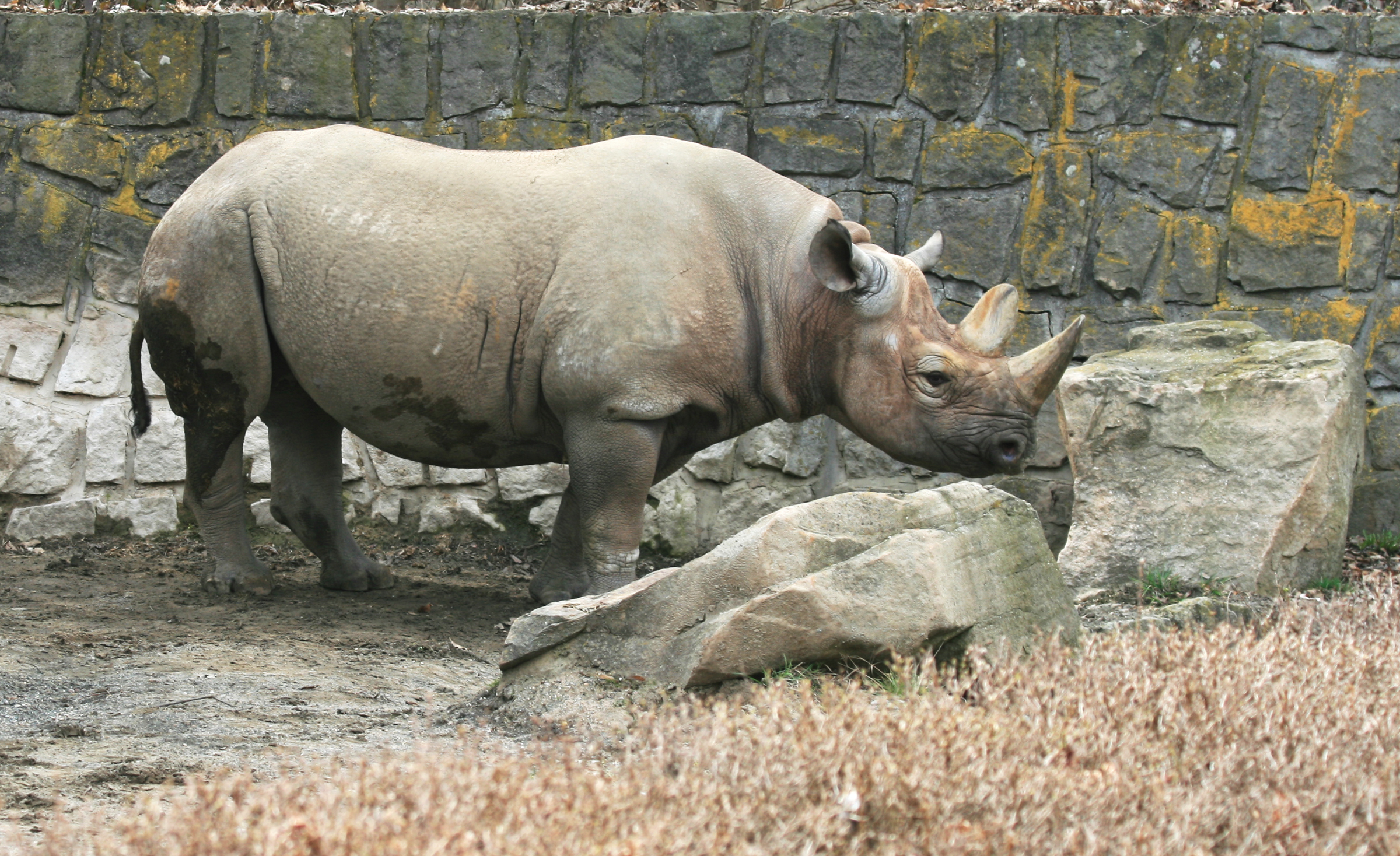 Black Rhinoceros, Diceros bicornis in ZOO Dvůr Králové, Czech Republic